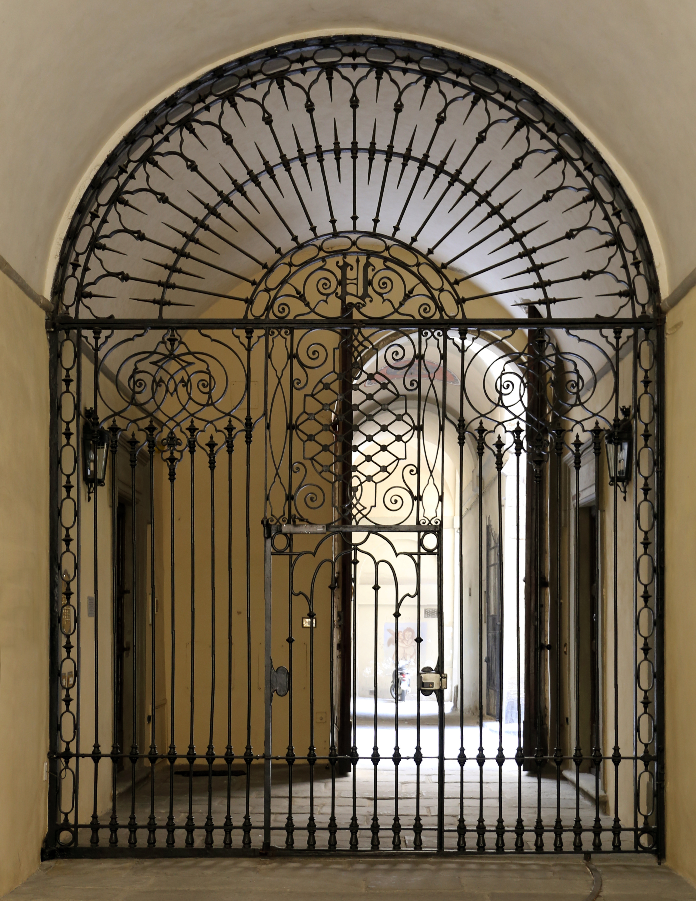 Palazzo Tanagli - Courtyard